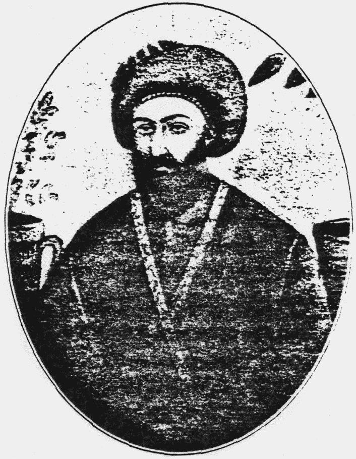 Sayyid Kazim Rashti (1793-1843) In Balyuzi, H.M. (1973) The Báb: The Herald of the Day of Days, Oxford, UK: George Ronald ISBN 0853980489, opposite page 16 this image is reproduced, stating: "Hájí Siyyid Kázim-i-Rashtí - This photograph [sic] was mistakenly identified as one of the Báb by Nicolas in his book Seyyed Ali Mohammed dit le Báb."